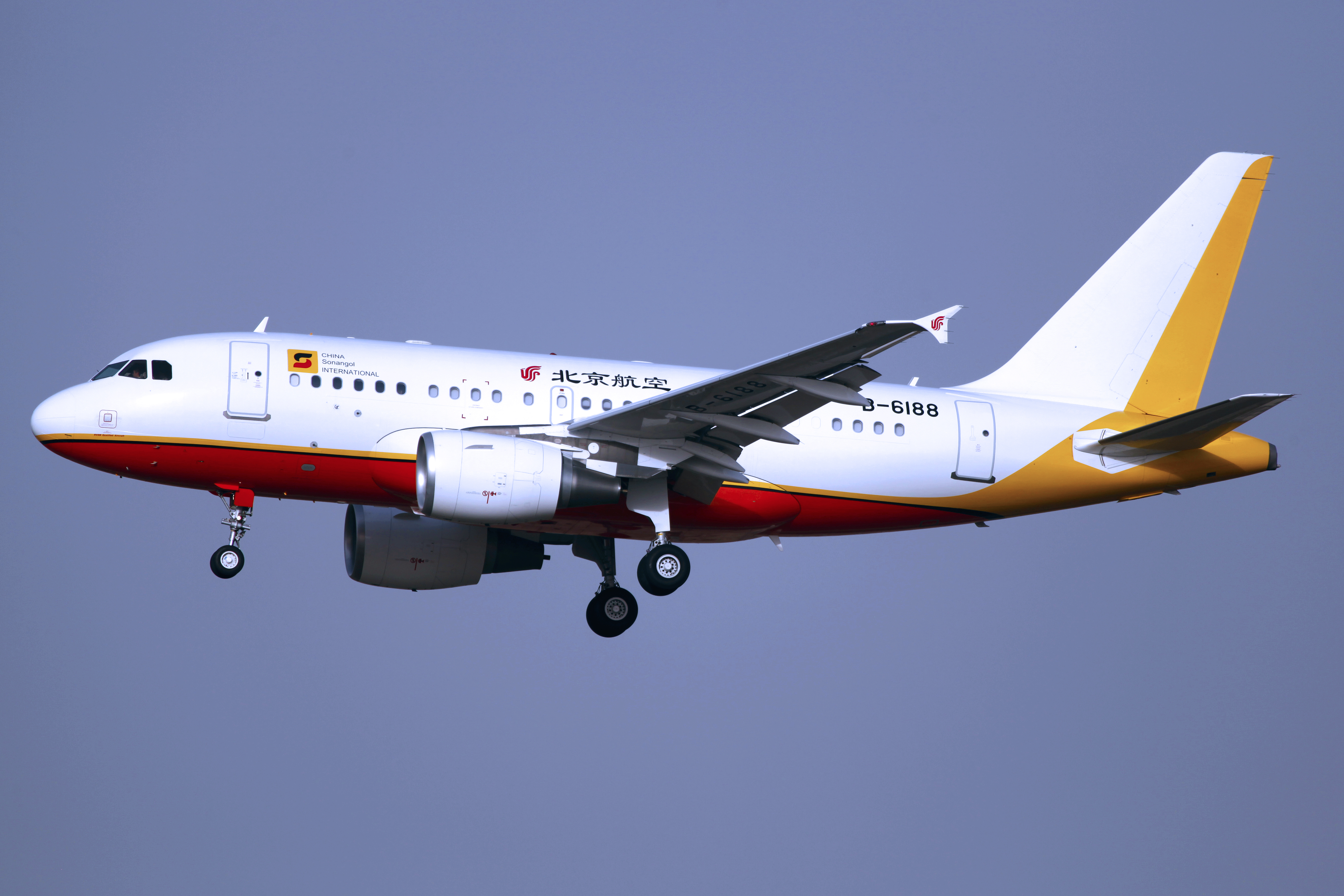 B-6188 | China Sonangol International | Airbus A318-112(CJ) Elite | Beijing Capital International Airport [PEK]